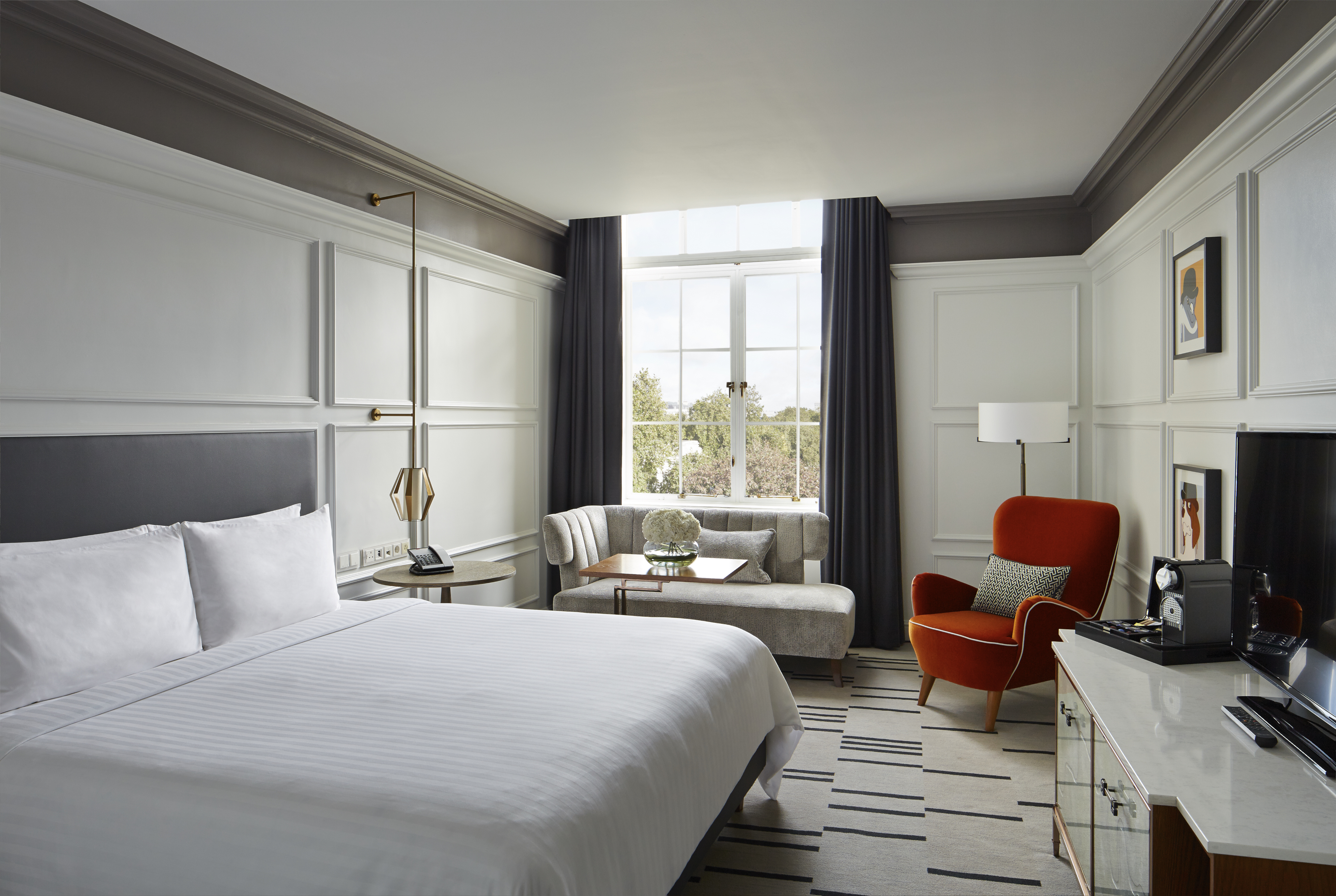 London Marriott County Hall Bedroom